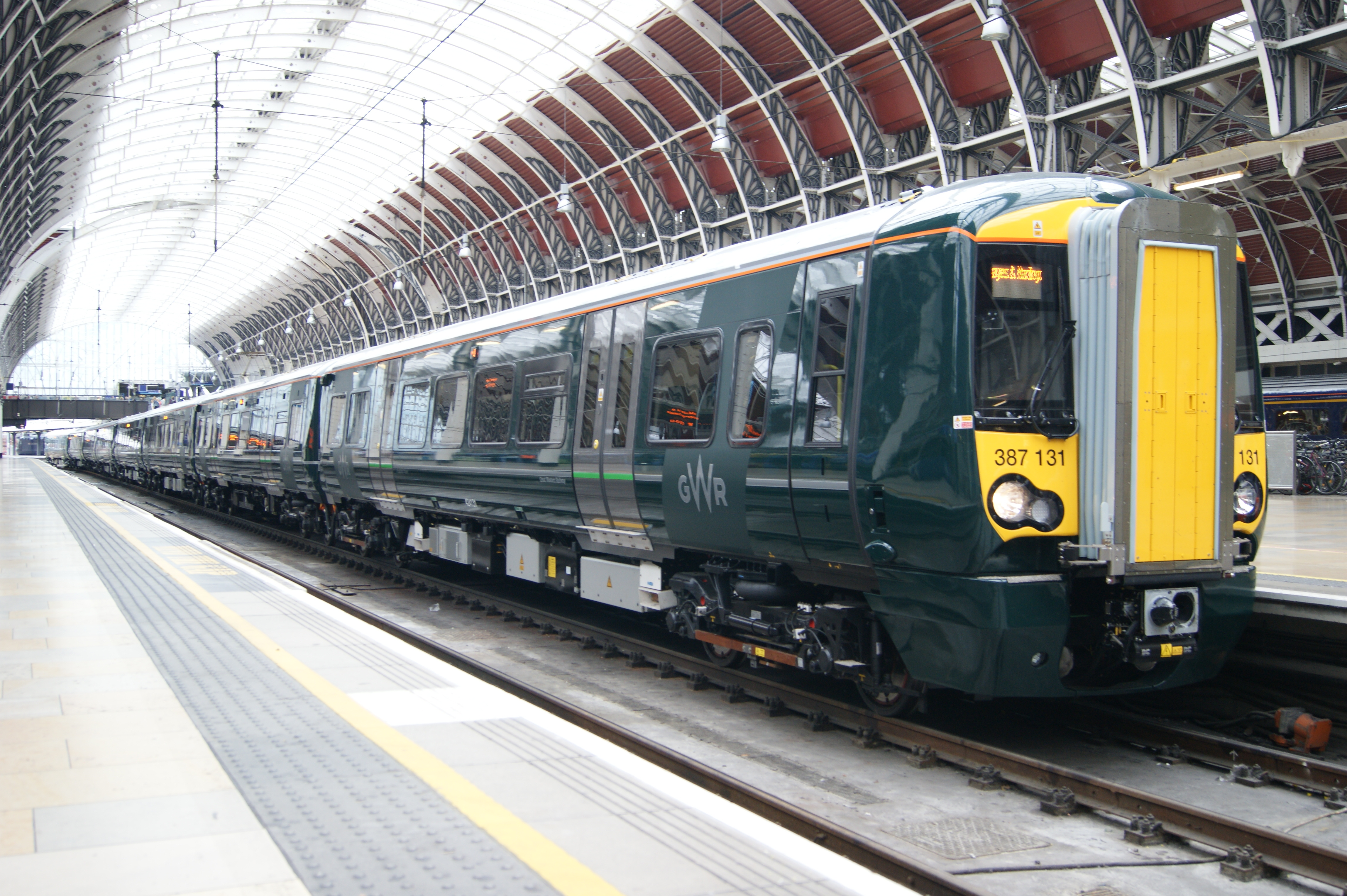 387131 & 387132 in London Paddington on 2 September 2016